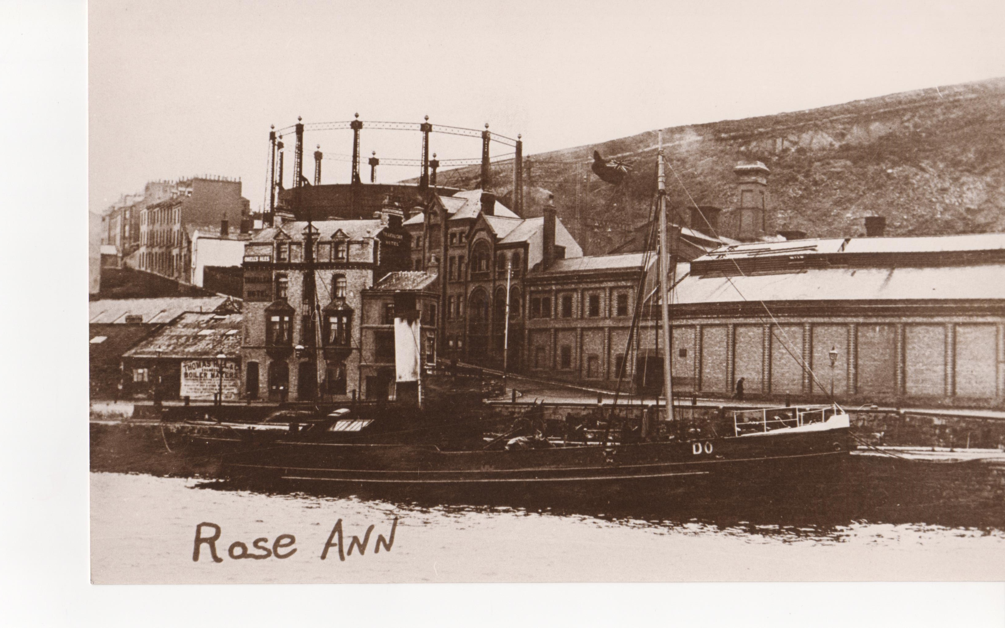 SS Rose Ann pictured at The Tongue, Douglas Isle of Man